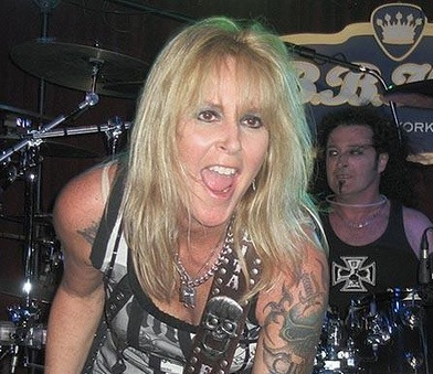 Lita rocking the HEAVY METAmucil guitar